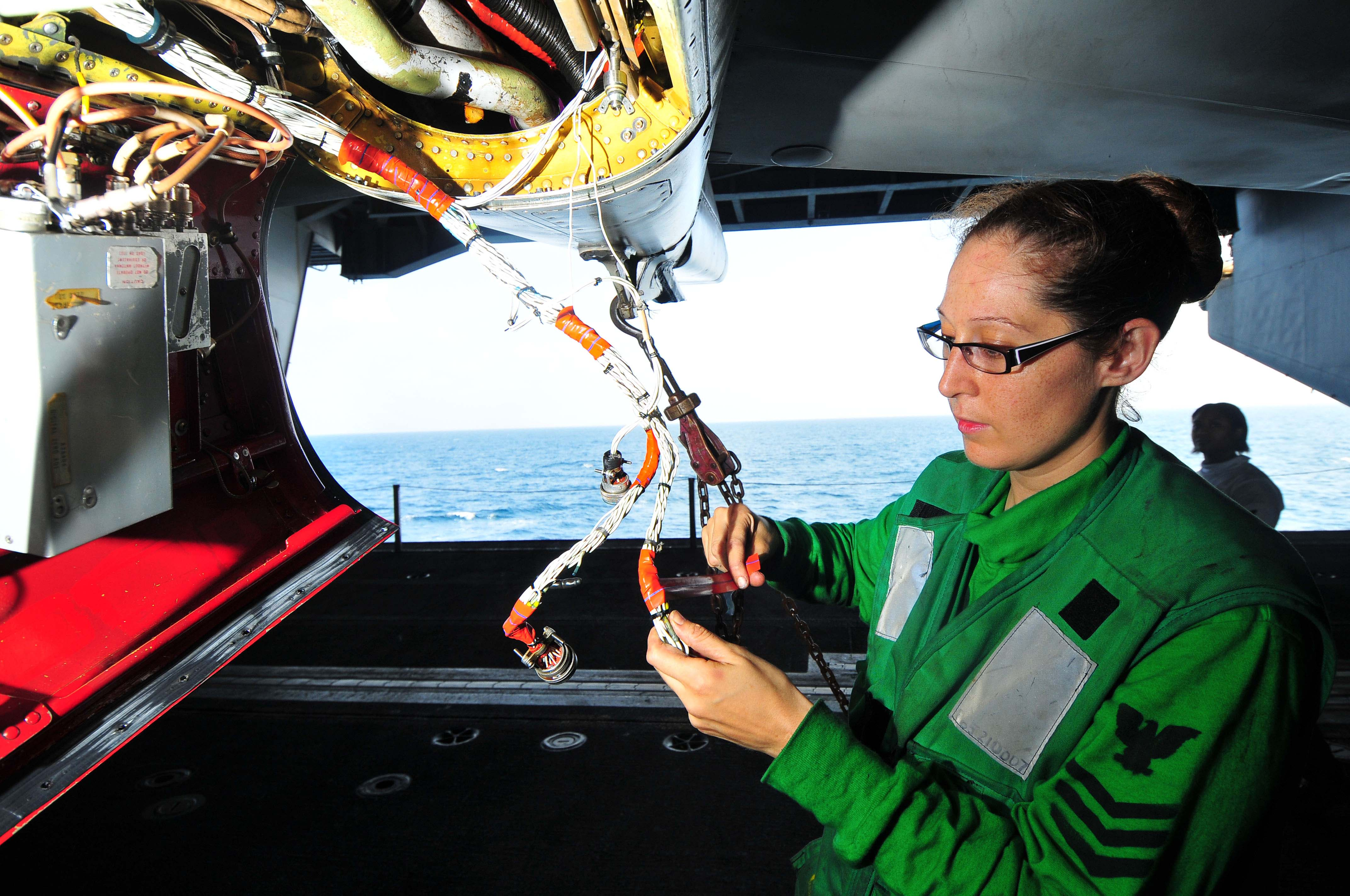 GULF OF OMAN (Nov. 24, 2009) Aviation Electronics Technician 1st Class Kristina Perham, assigned to the Black Ravens of Electronic Attack Squadron (VAQ) 135, spot ties wiring on an EA-6B Prowler in the hangar bay of the aircraft carrier USS Nimitz (CVN 68). The Nimitz Carrier Strike Group is on a routine deployment to the U.S. 5th Fleet area of responsibility. (U.S. Navy photo by Mass Communication Specialist 3rd Class Matthew Patton/Released)